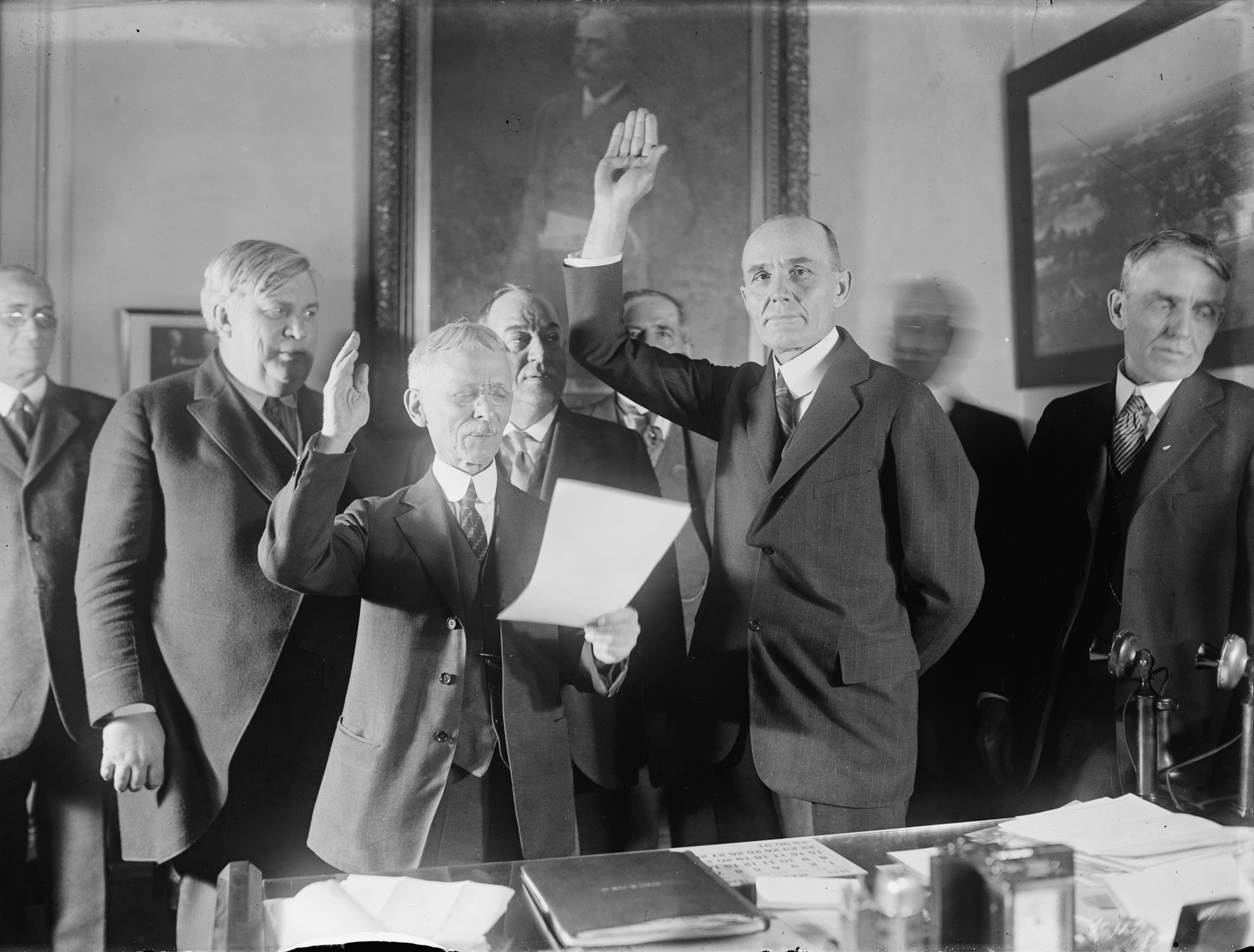 Swearing in of Wm. M. Jardine as Secty. of Ag., 3/5/25